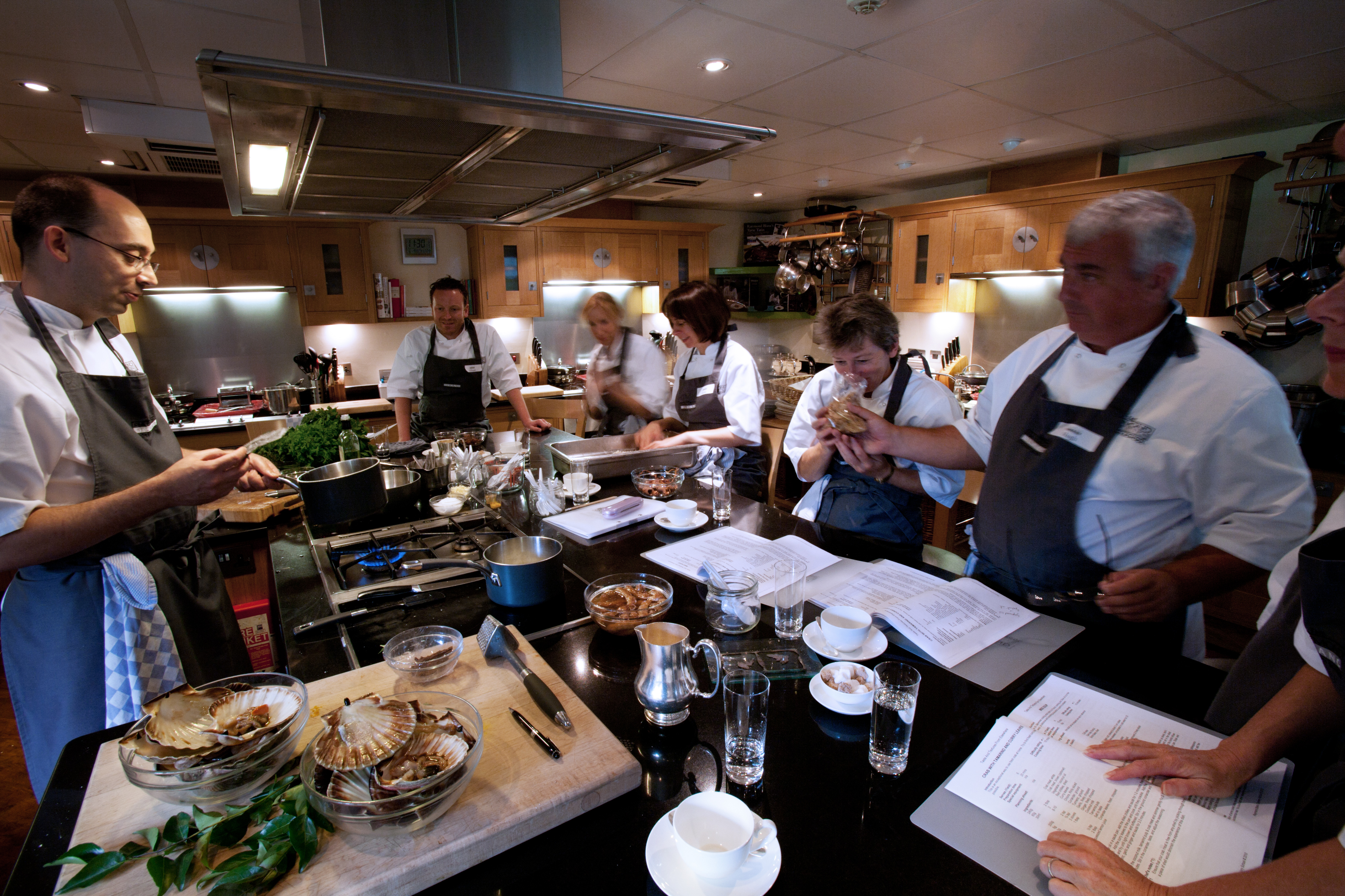 Chef School (Raymond Blanc cooking school), Oxford